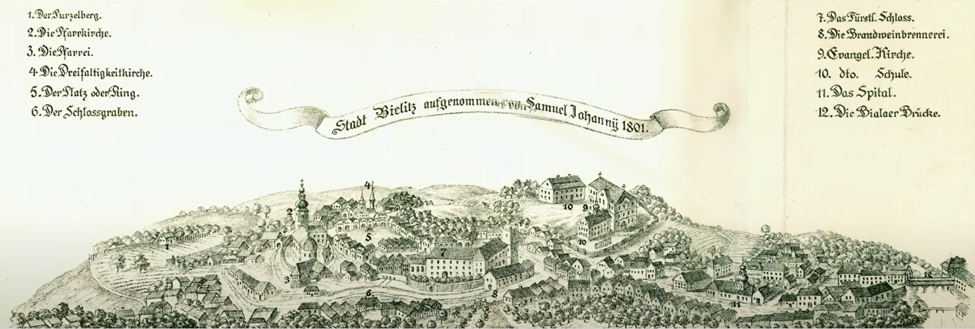 General view of Bielsko (Bielitz) from east in 1801. Woodcut by Samuel Johanny.